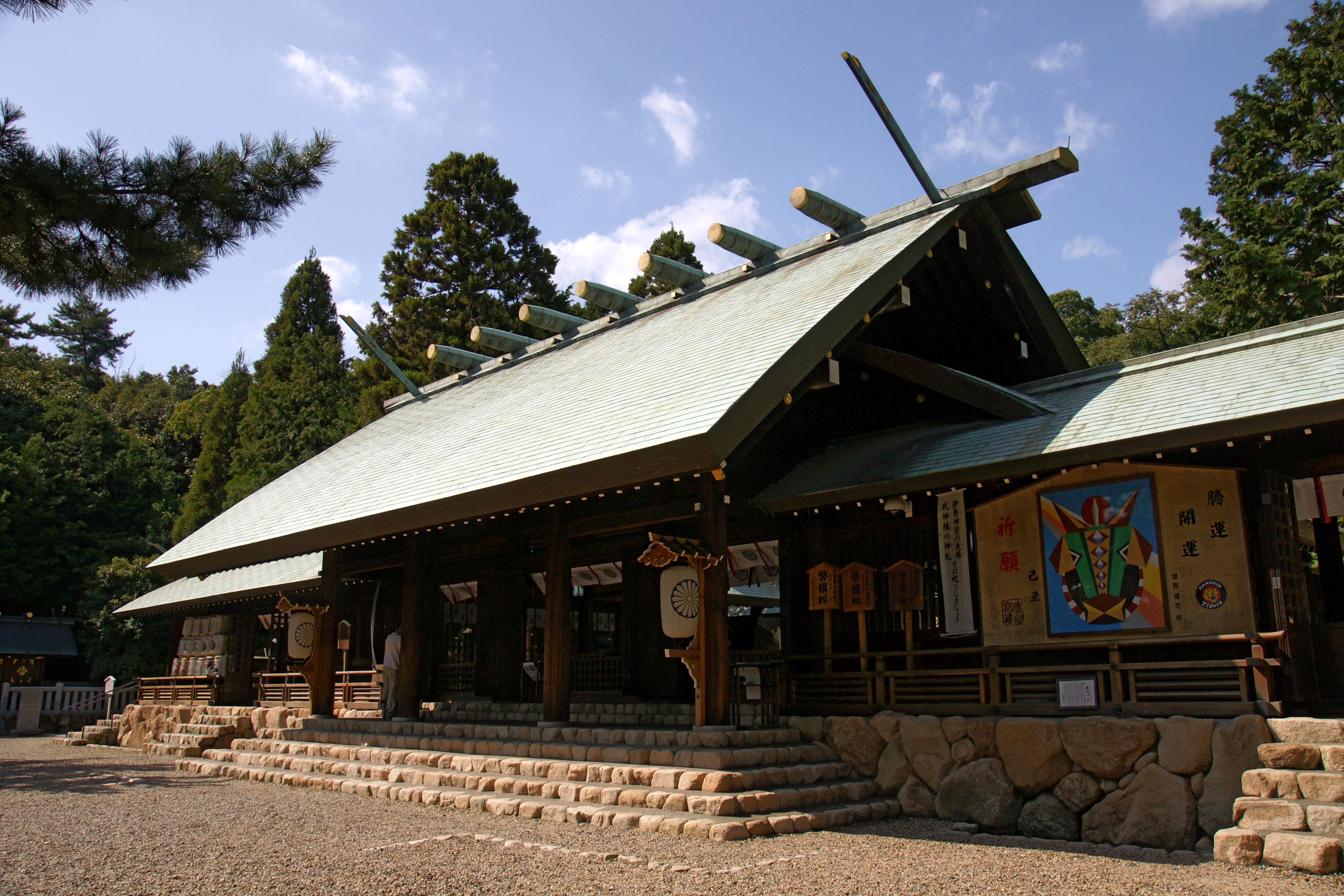 Hirota Shrine (Hirota-jinja) in Nishinomiya, Hyogo prefecture, Japan